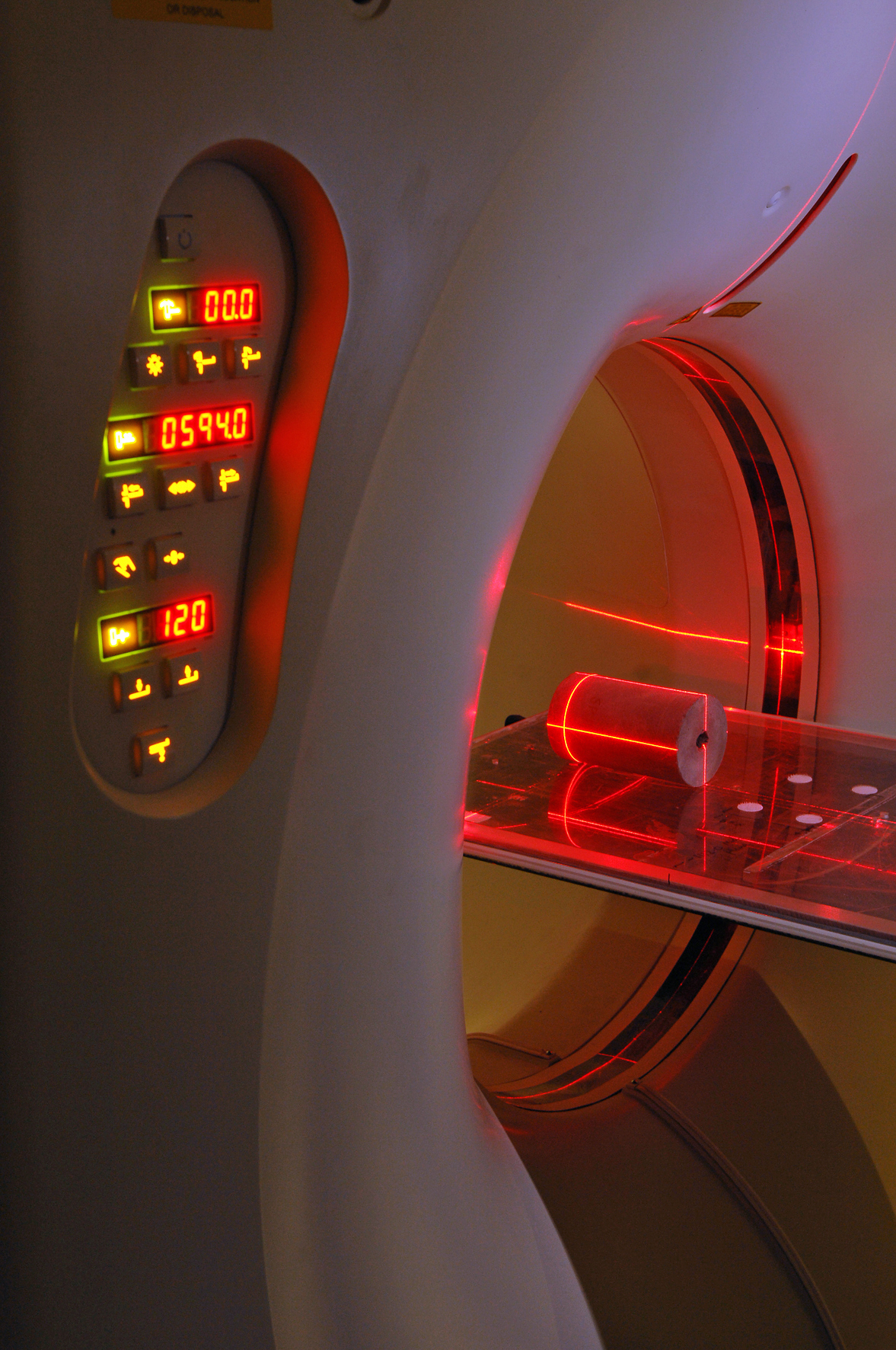 CSIRO's Petrophysics Laboratory offers a range of dielectric measurement options in a broad frequency range for solid and drill cutting samples. The CSIRO Petrophysics Laboratory conducts dielectric spectrographic analysis of rock samples including core samples provided by industry and other research organisations, as well as powdered drill cuttings samples. Dielectric properties of rock are indicators of wettability, porosity, mineralogy, pore structure and pore geometry. Dielectric logging is rapid and can be used to determine moisture content and mechanical properties of rock where other techniques are slower and less cost effective.